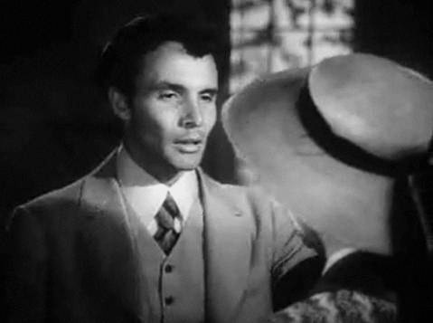 Cropped screenshot of James Mitchell (with Amanda Blake) from the trailer for the film Stars in My Crown.